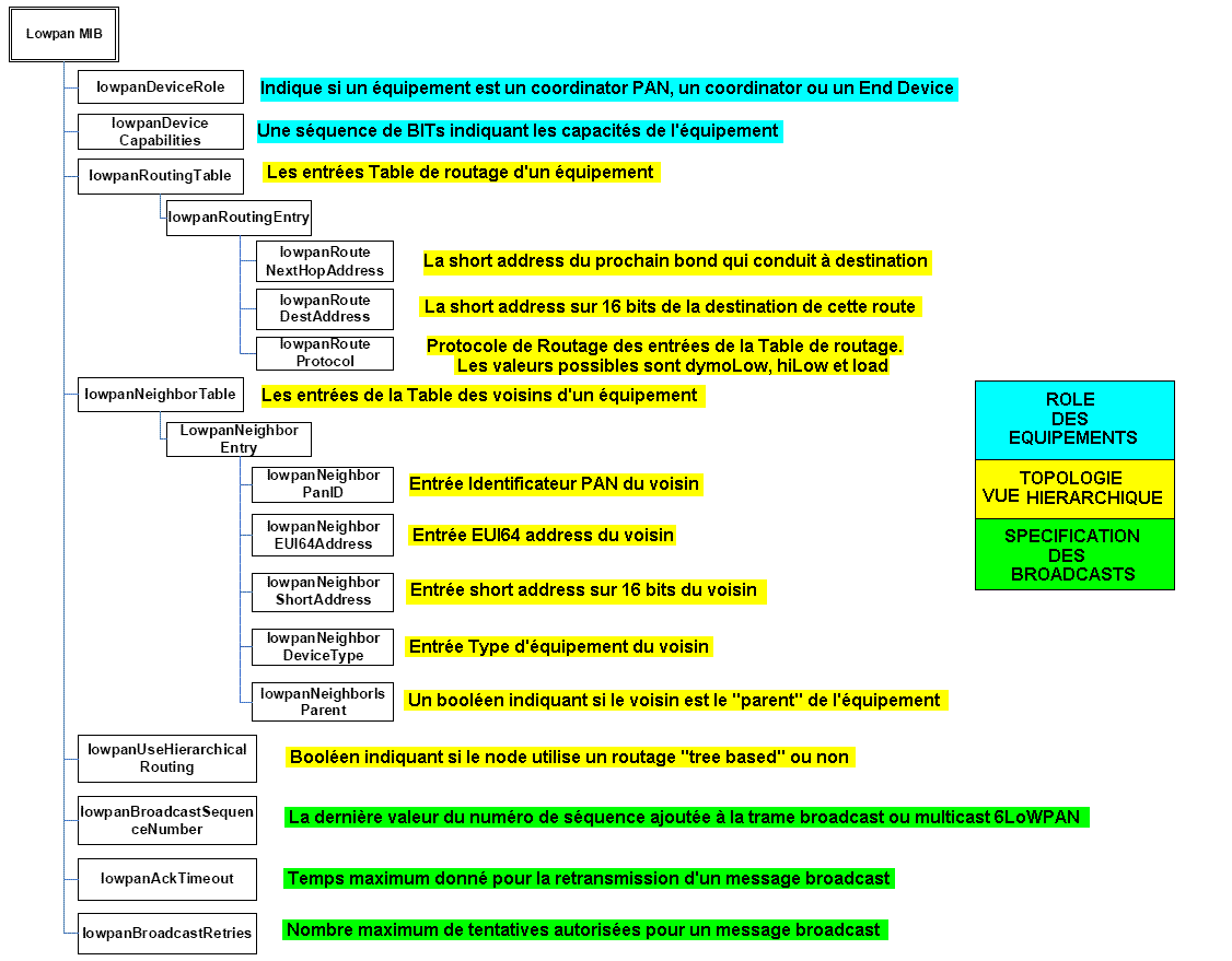 Graphic description of LNMP-MIB tree with enlightening of its three parts : Devices Roles, Topology and Braodcast Specifications. (French Text)